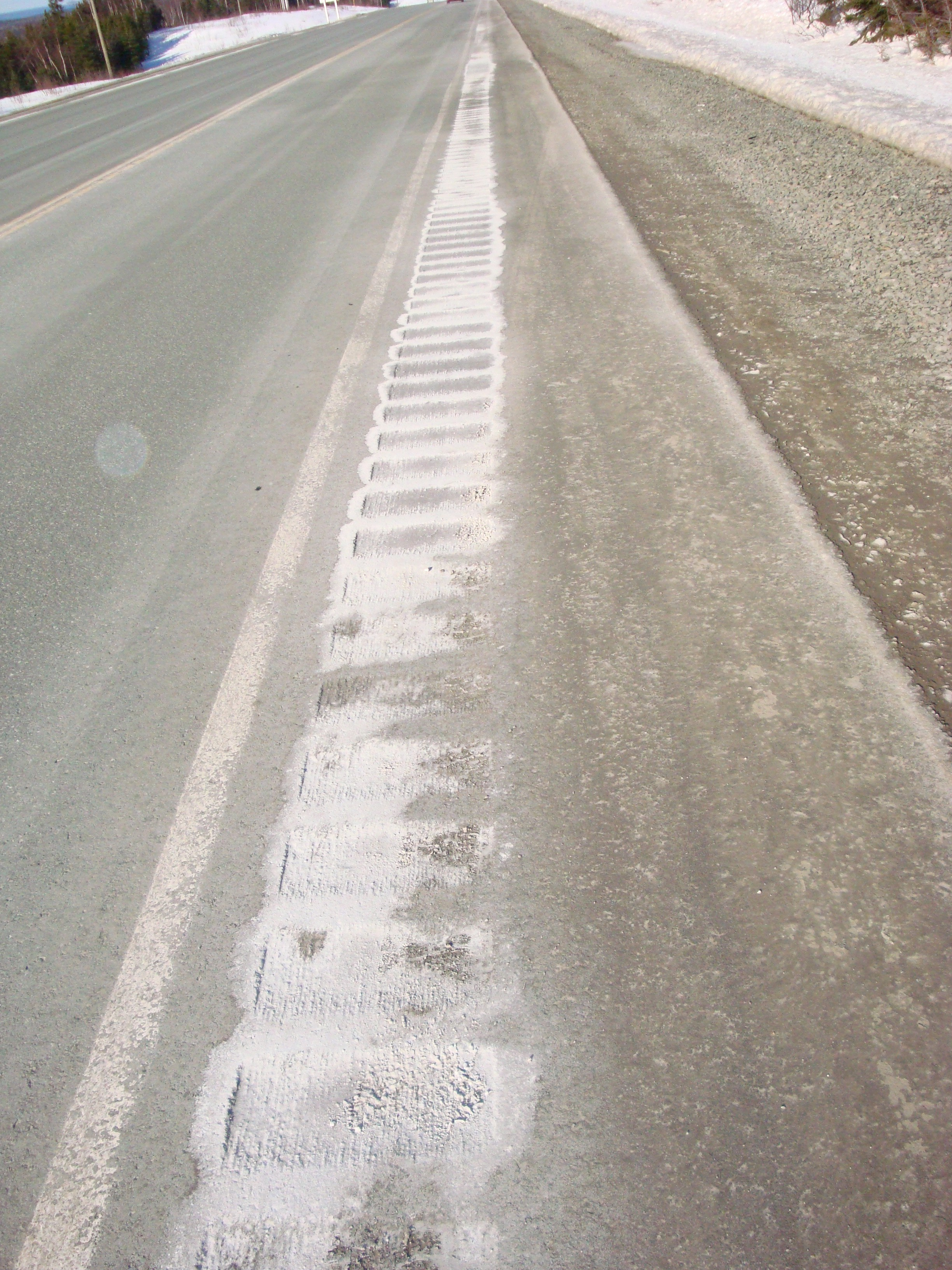 Salt filled rumble strip from a Canadian highway